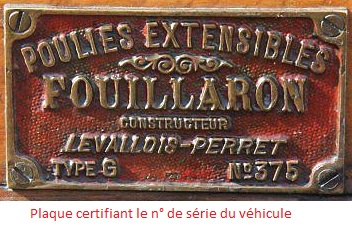 Stretch pulley car, manufactured in Levallois-Perret